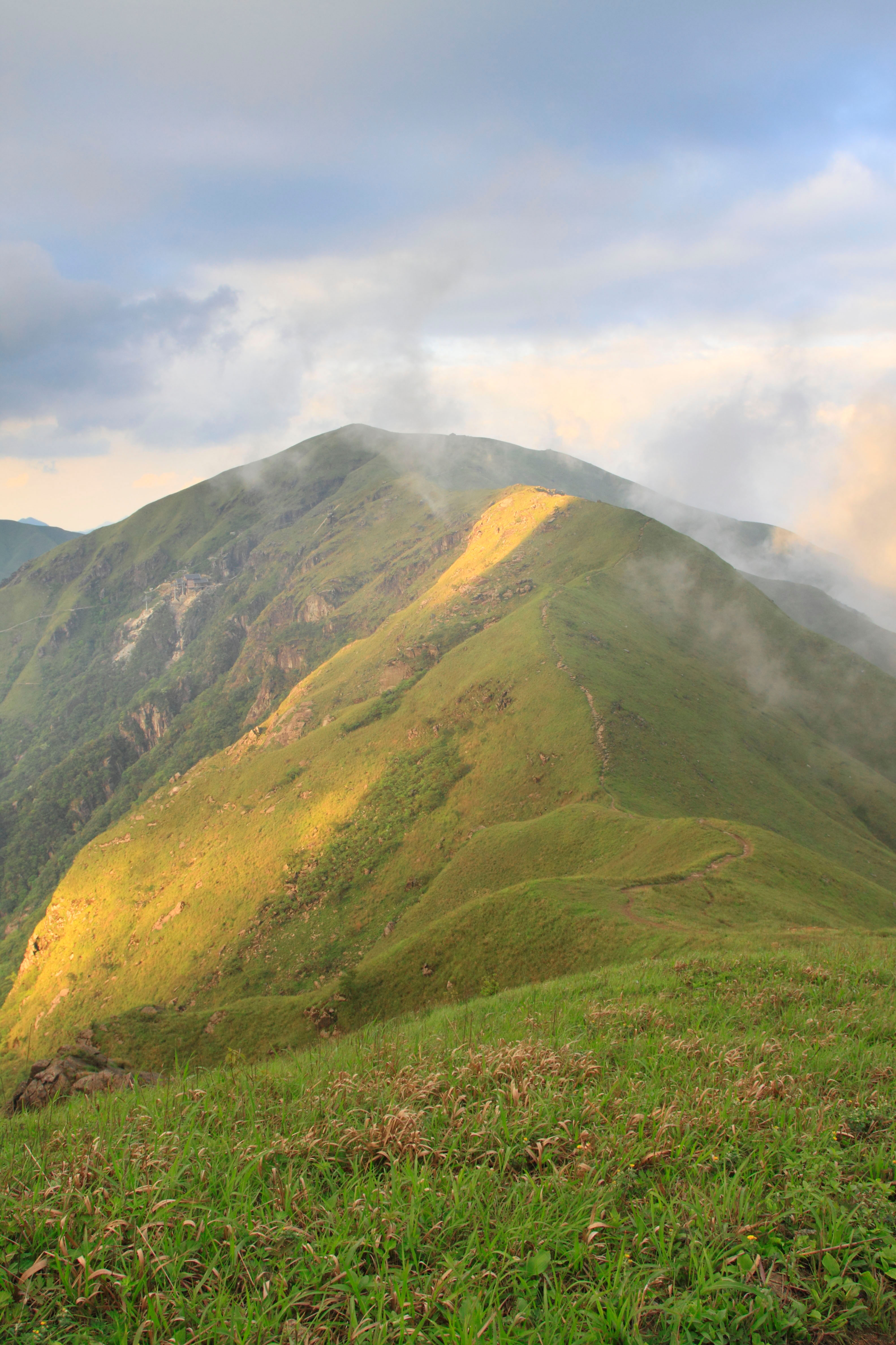 The ridgeline of Wugong Mountain（Wugongshan）in Jiangxi, China.